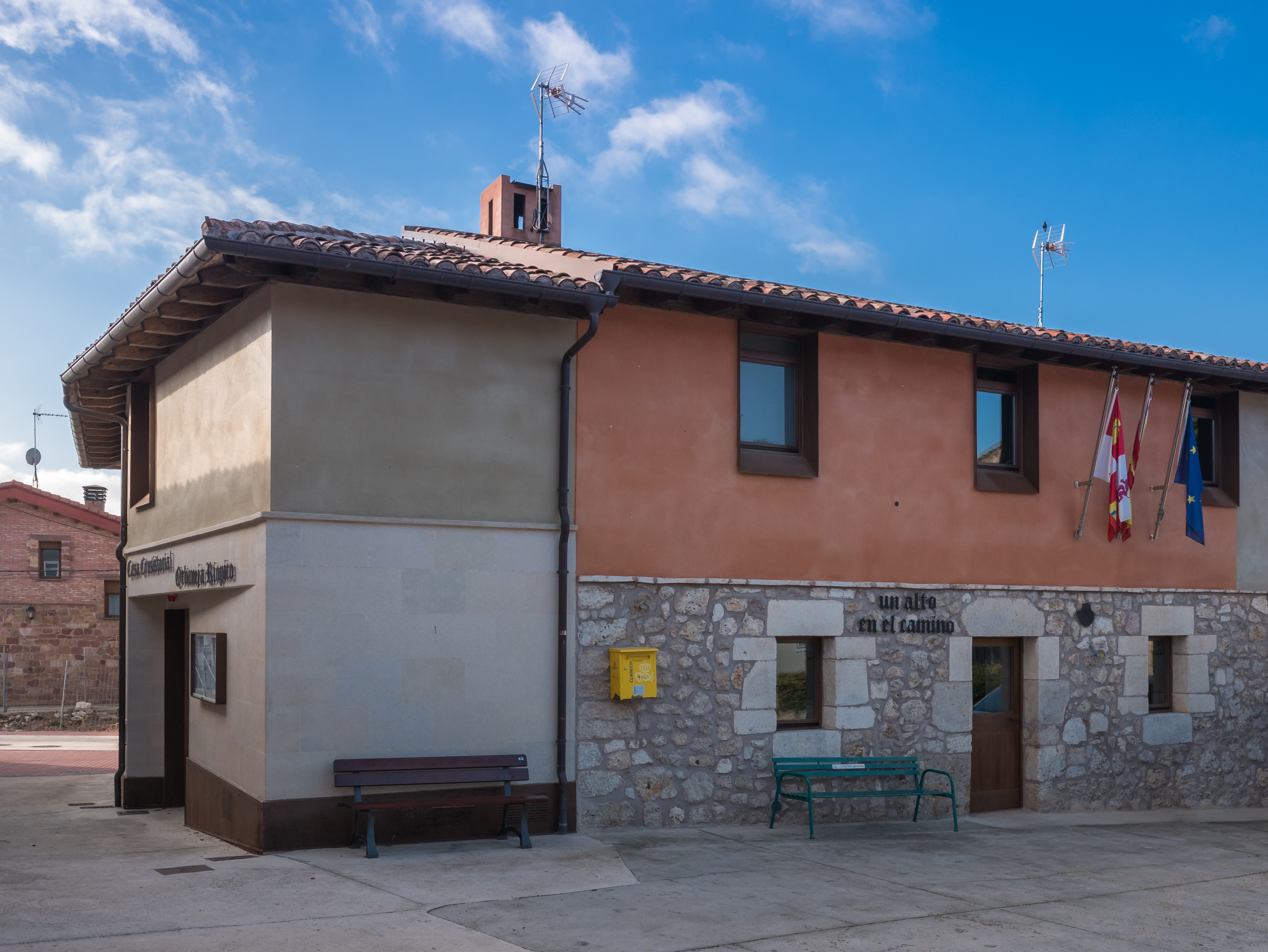 Orbaneja Riopico, Town Hall. Burgos, Castilla-León, Spain